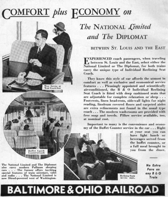 Promotional piece about the coach accomodations on trains The National Limited and The Diplomat from the Baltimore and Ohio railroad's employee magazine from August 1938.